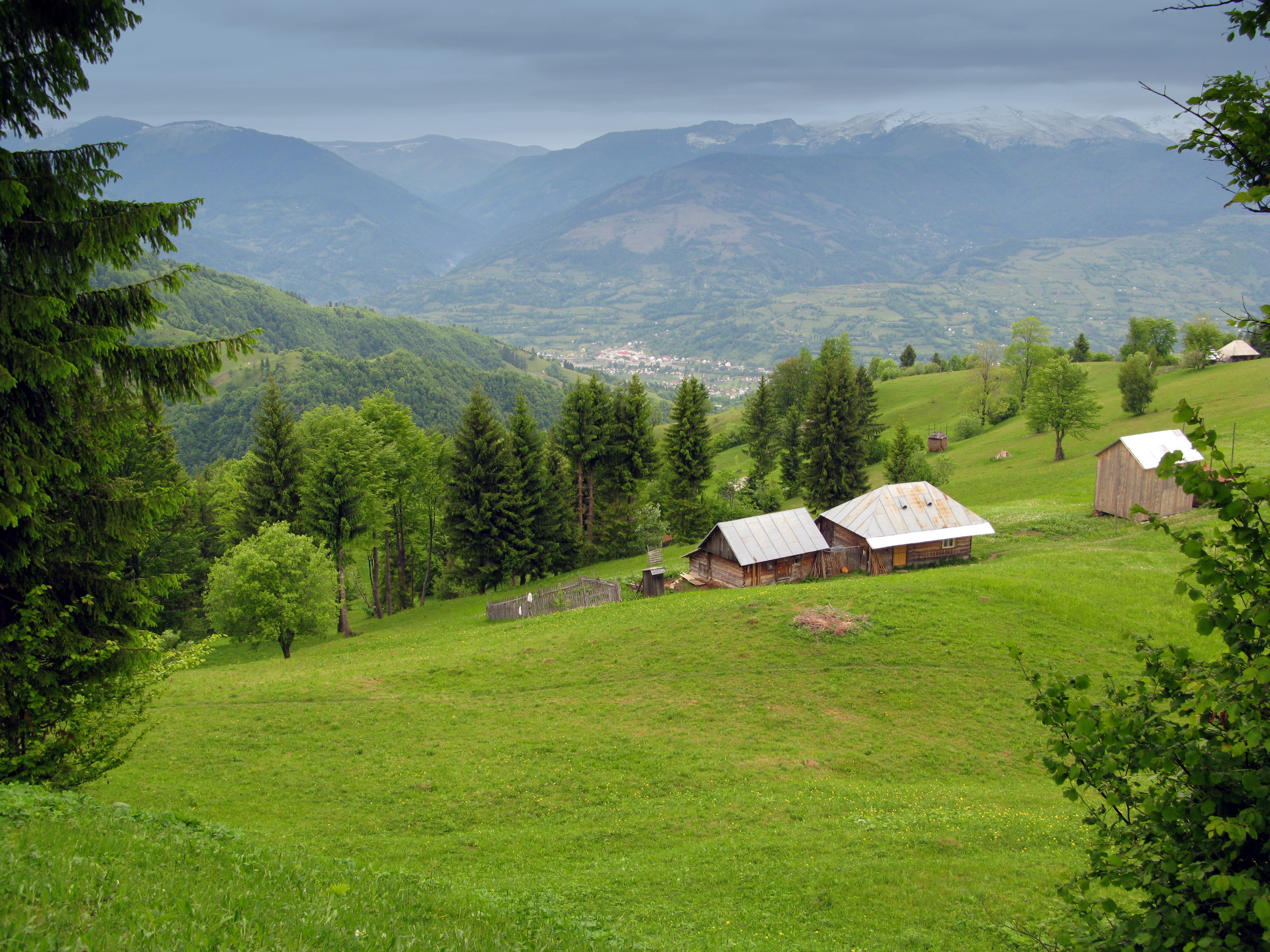 View of Poienile de sub Munte from hillfort Obcina / Maramureş Mountains (Inner Eastern Carpathians) in north of Rumania / EU. In the background left of Pop Ivan (1937 m) on the right Farcau (Varful Farcau 1956 m).